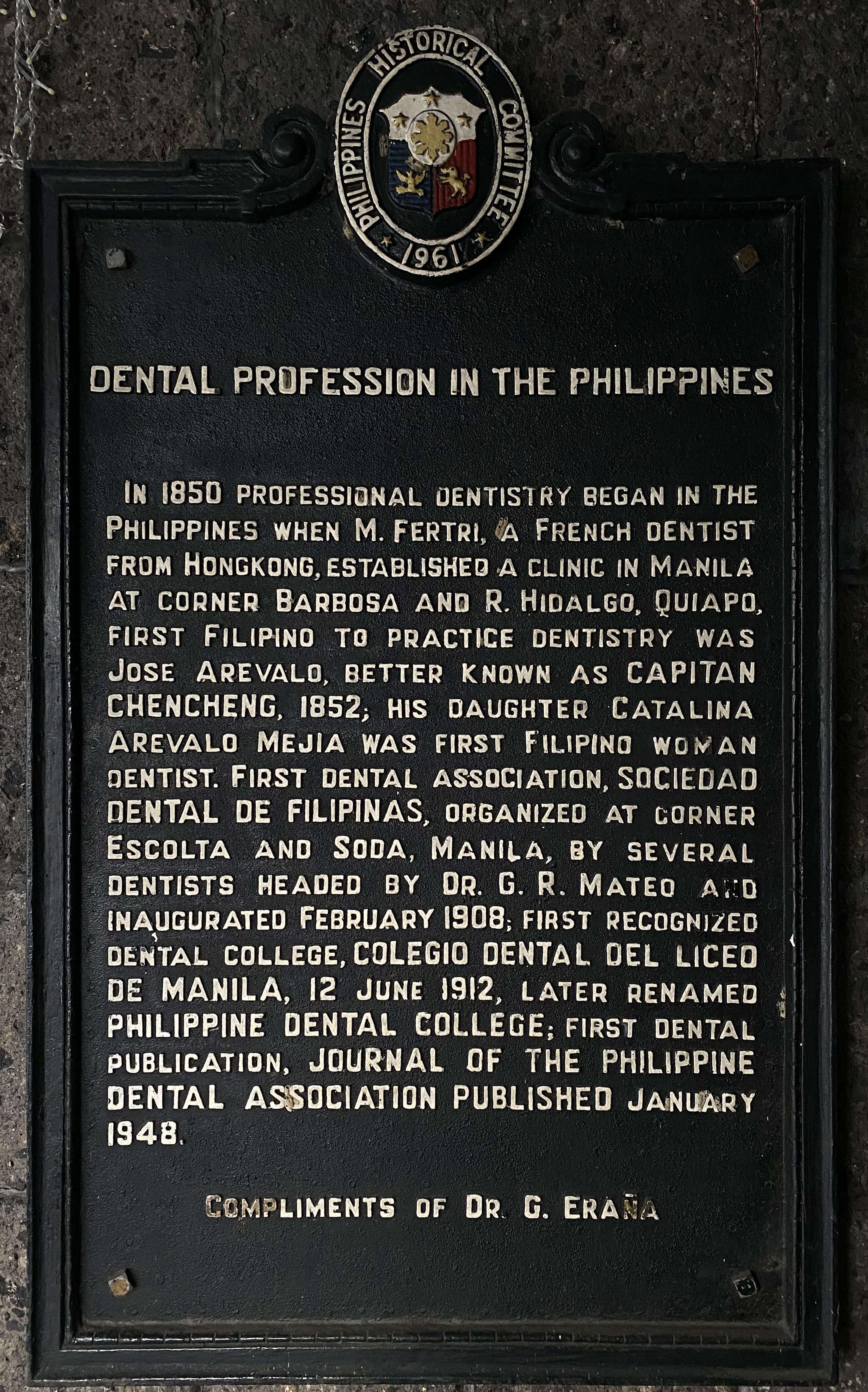 PDA marker, Makati